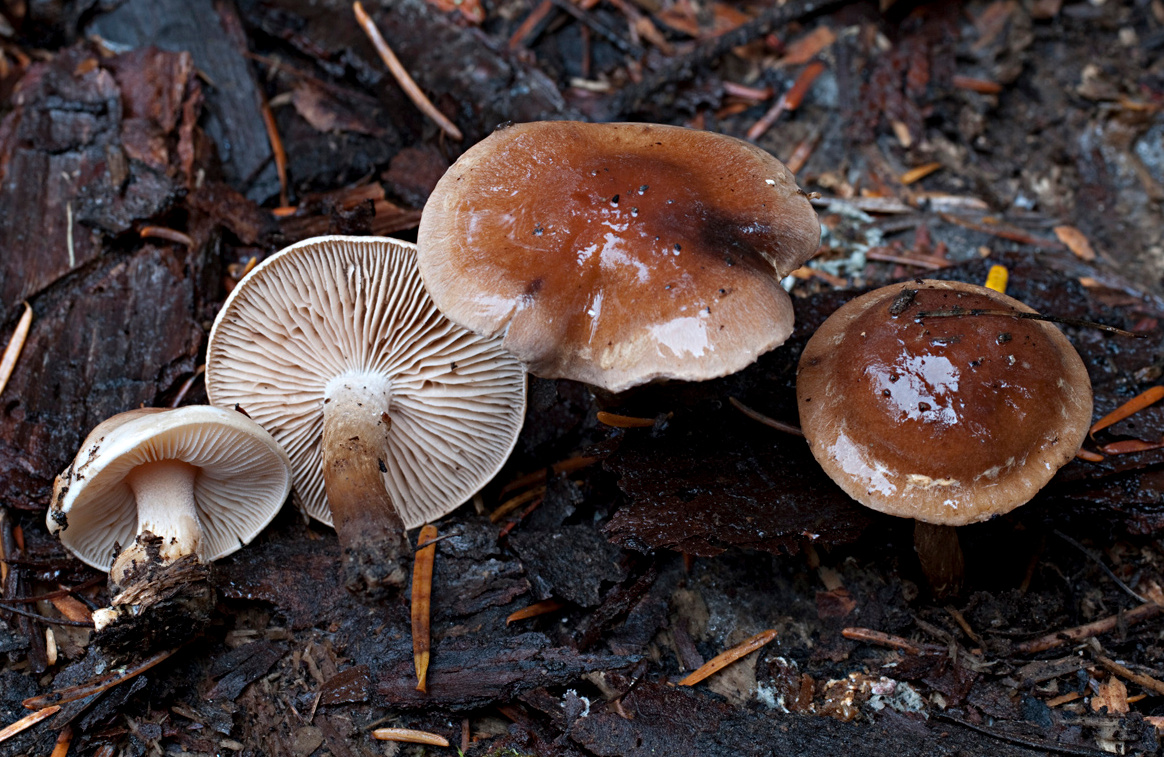 Hebeloma mesophaeum (Pers.) Quél. Image location: Pend Oreille Co., Washington, USA with mixed conifers, raphanoid odor, Recognized by sight Based on microscopic features: cheilocystidia, spores 9-10 µm For more information about this, see the observation page at Mushroom Observer.